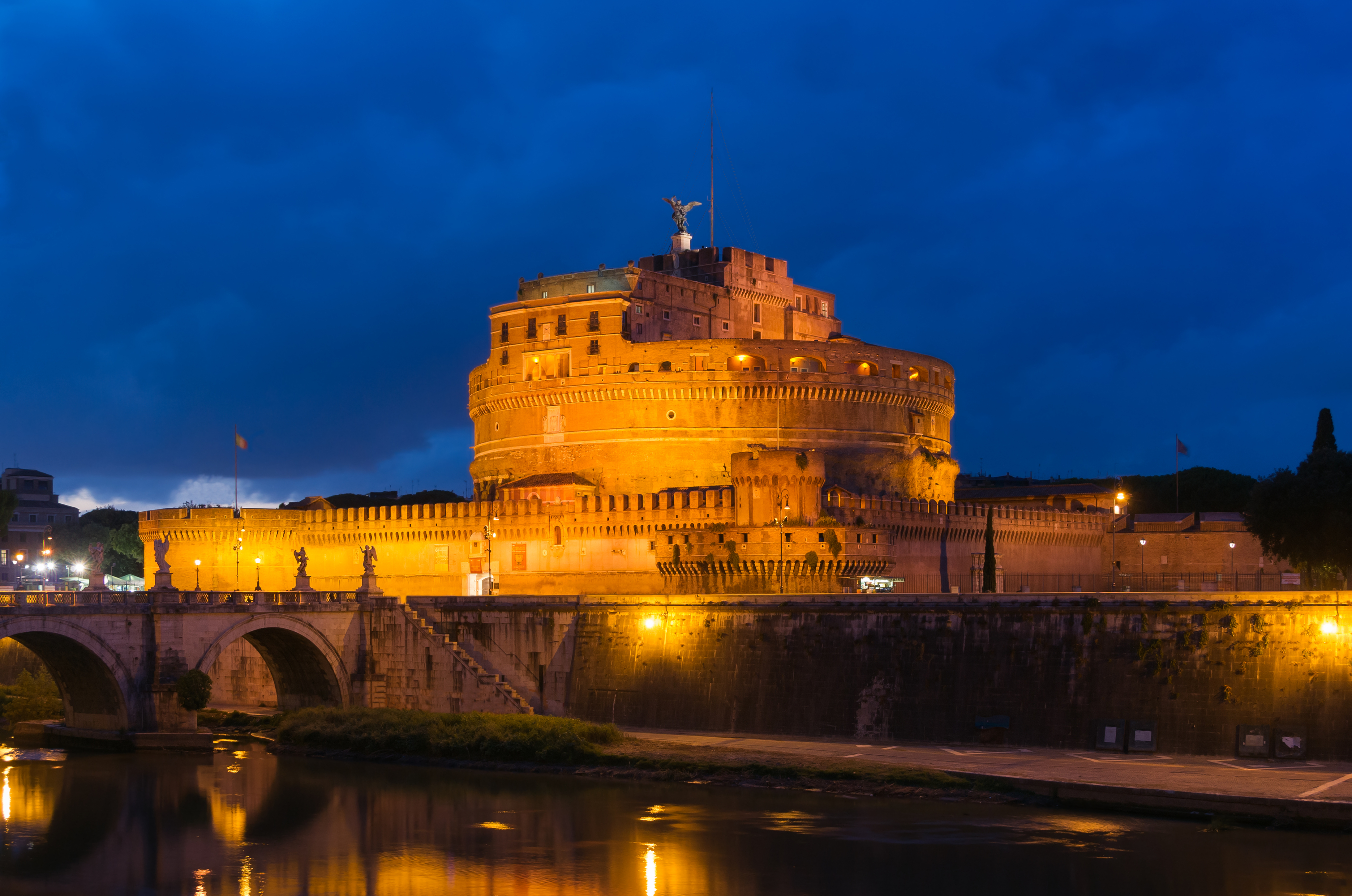 Castel Sant'Angelo at dusk, Rome, Italy.